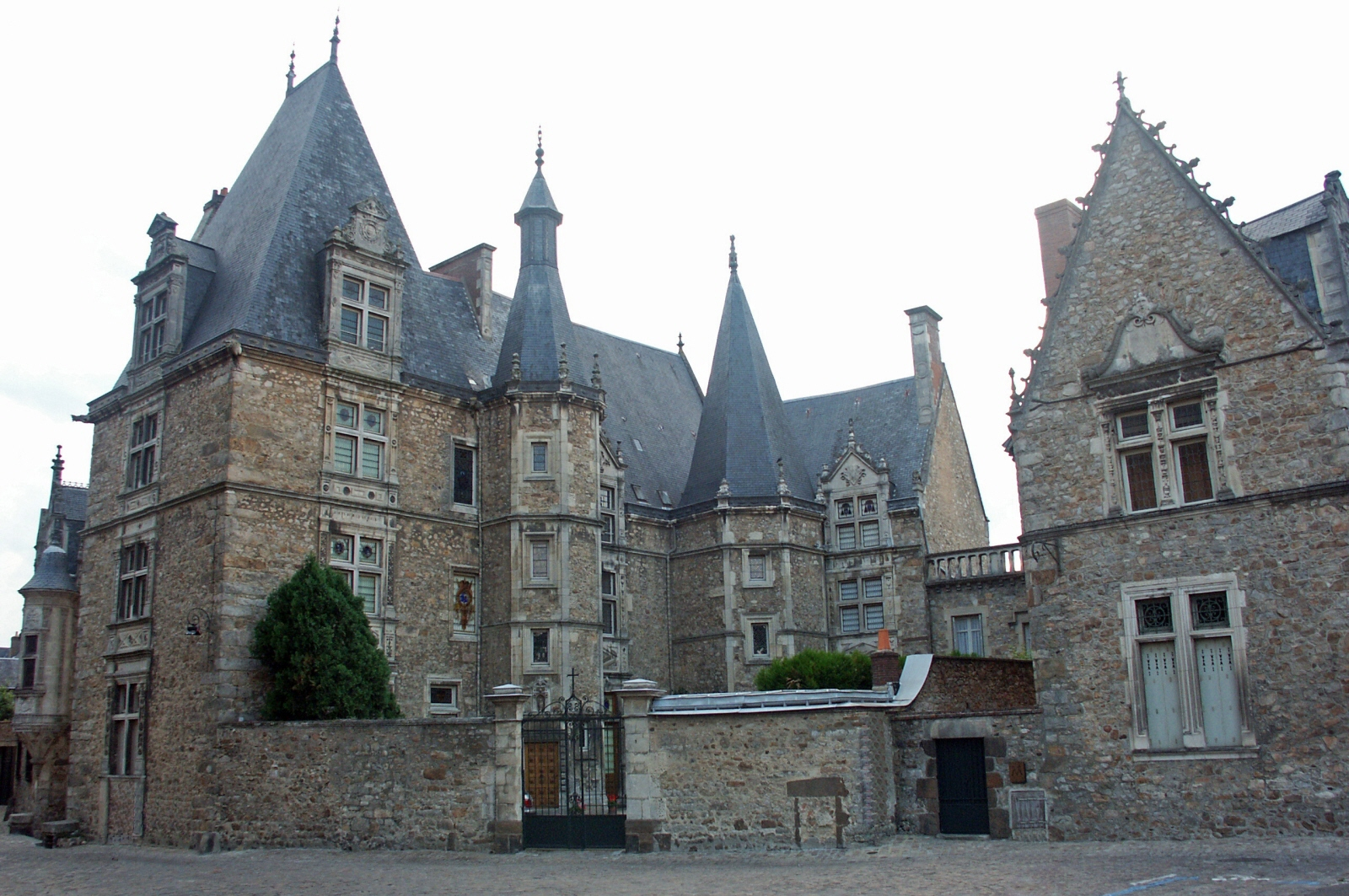 Description: Le Mans (Sarthe, France); Vieux Mans. Source: taken by Fafner